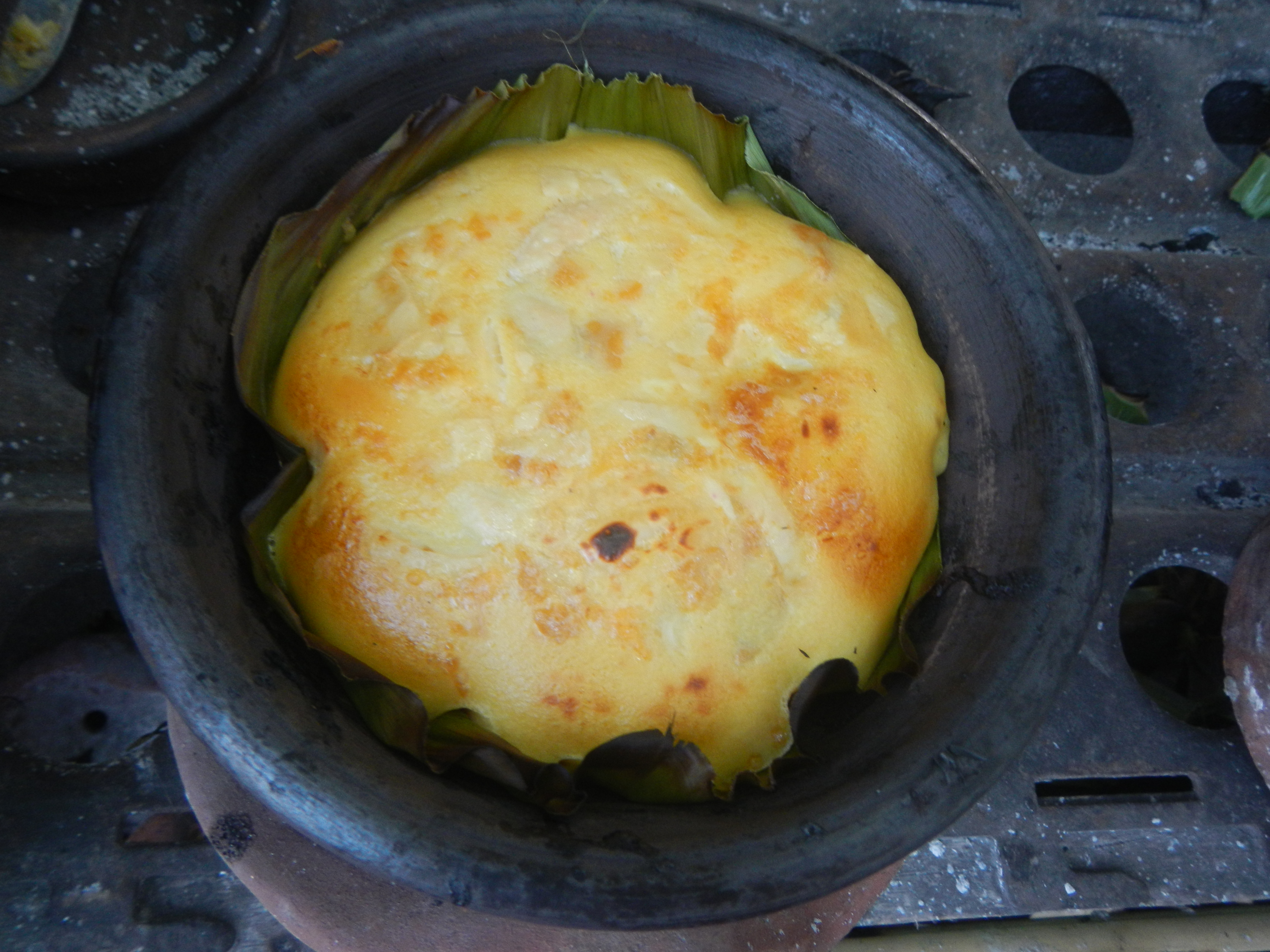 MagFoodTrip sa Baliwag - Buntal Festival 2017 Henry Ware Lawton Proclamation No. 104, s. 1999 Thursday, May 6, 1999, as a special day in the Municipality of Baliuag, Province of Bulacan Baliuag Mayors May 7, 1899: First Philippine local elections under the American occupation May 6, 1899 first municipal election in the Philippines was held in the town of Baliwag in Bulacan province. Gathered at the plaza of San Agustin Church Barangay Poblacion 14°57'17"N 120°54'2"E, Baliuag, Bulacan, Bulacan province (Note: Judge Florentino Floro, the owner, to repeat, Donor Florentino Floro of all these photos hereby donate gratuitously, freely and unconditionally all these photos to and for Wikimedia Commons, exclusively, for public use of the public domain, and again without any condition whatsoever).